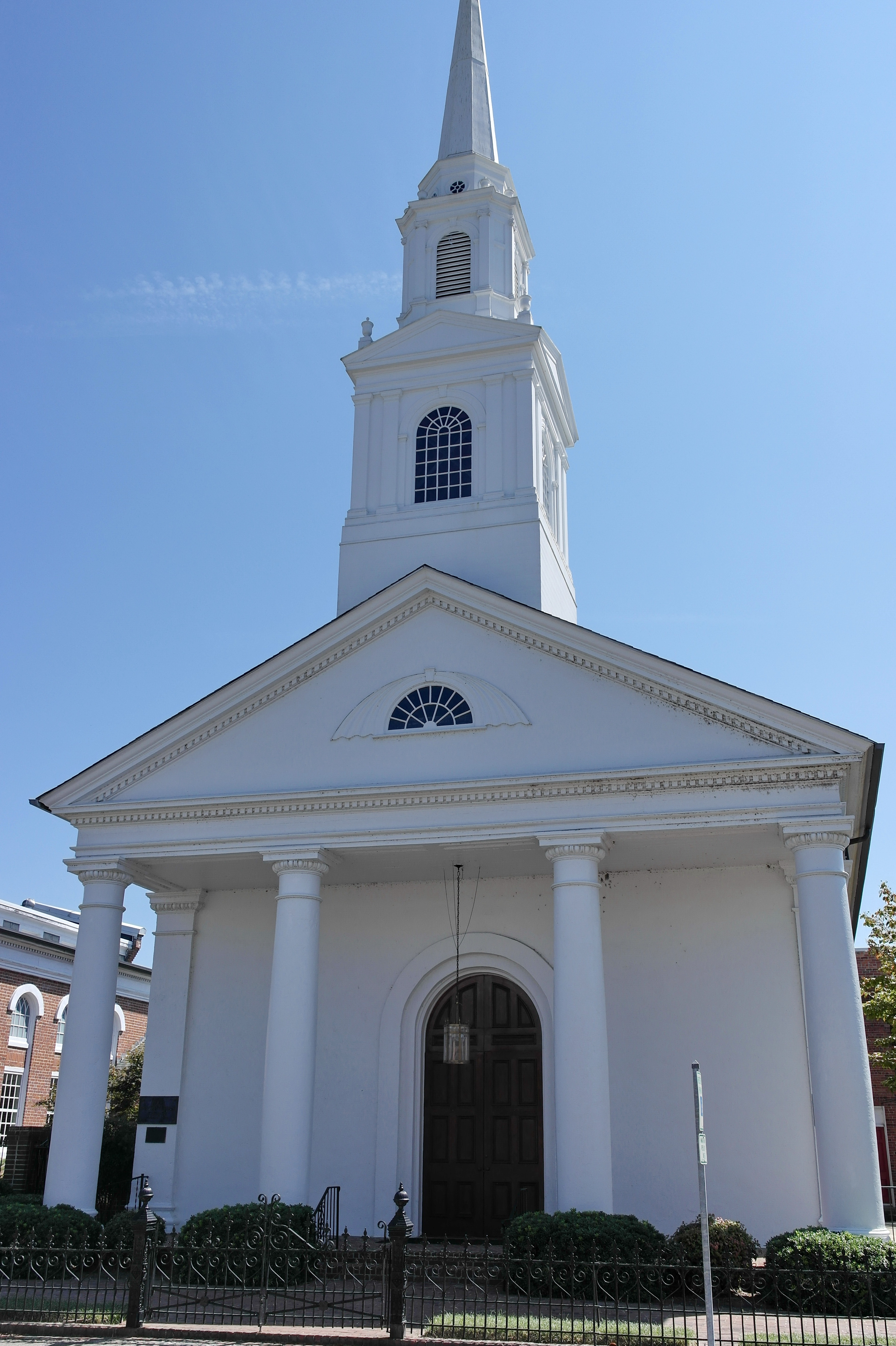 Built 1823, Rebuilt 1871, Restored 1954. Part of the Washington Historic District in Washington, North Carolina.